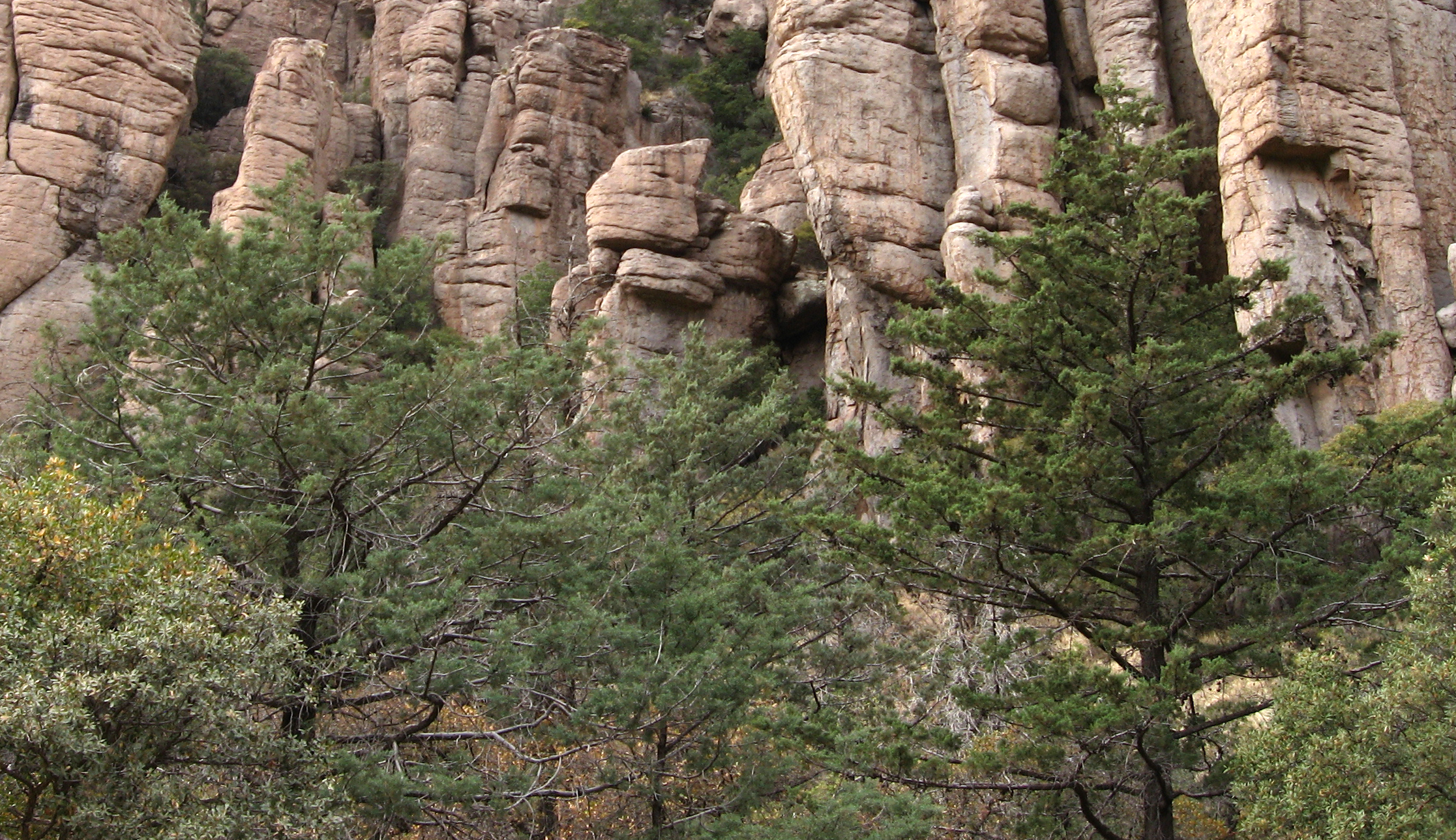 Cupressus arizonica, Chiricahua National Monument, Arizona.